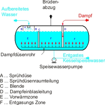 feed water tank